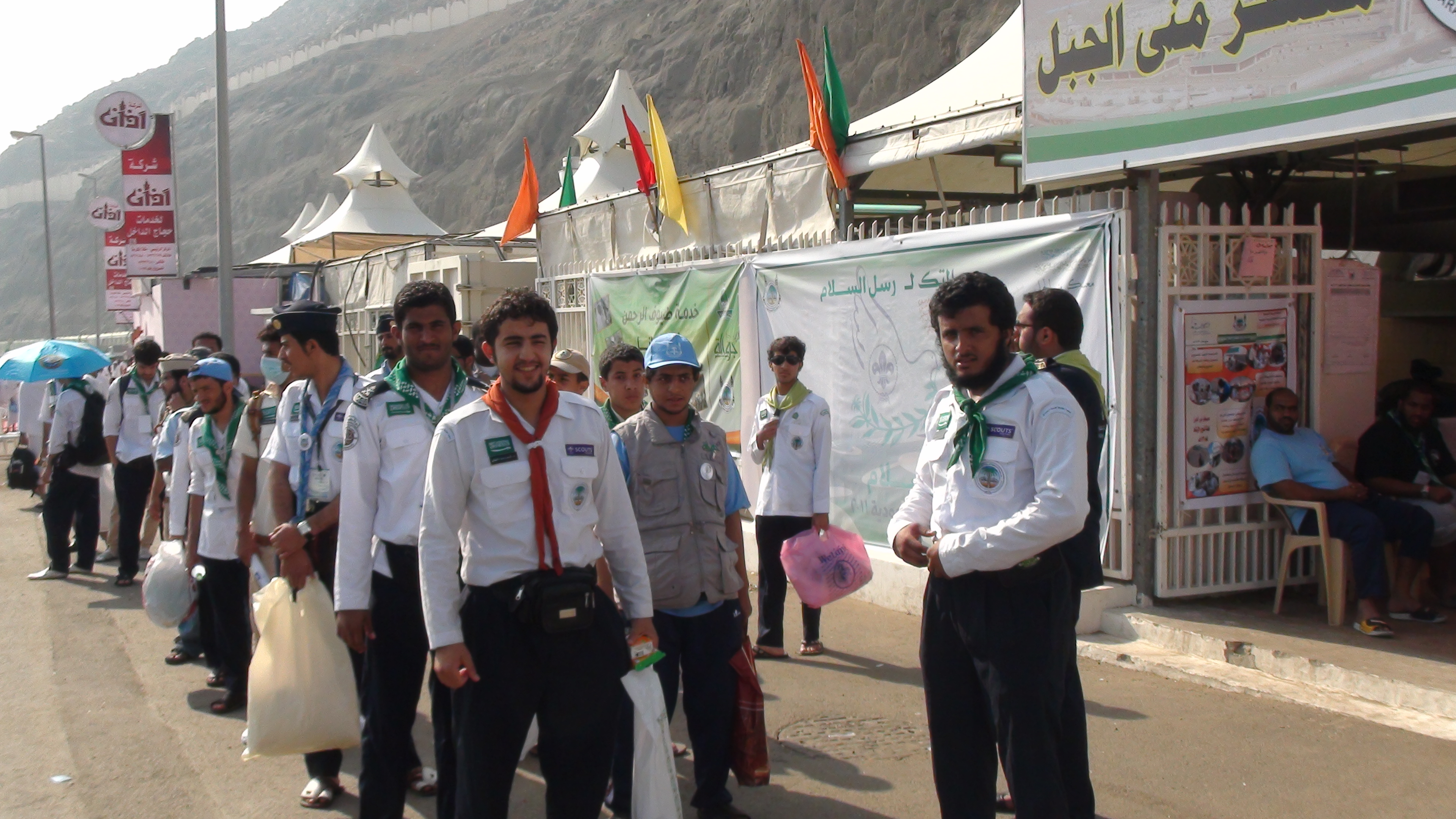 Scouting in Mina area, Saudi Arabia